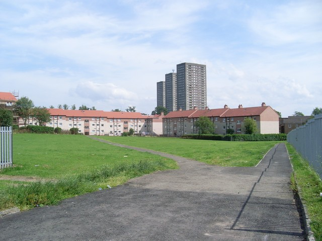 Housing in Drumchapel Facing the Linkwood flats and the more traditional housing of the area.